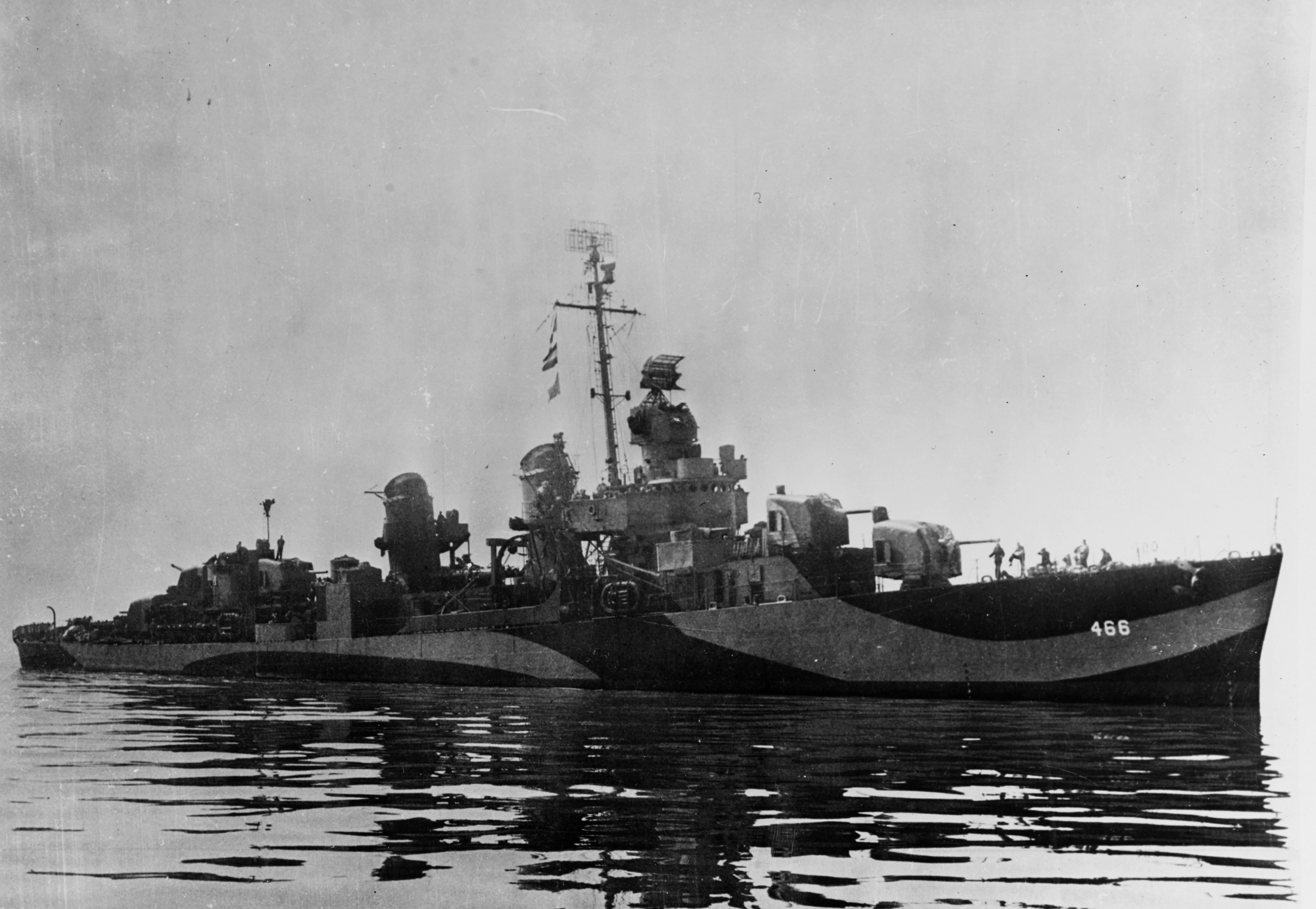 The U.S. Navy destroyer USS Waller (DD-466) off San Francisco, California (USA), on 17 October 1944. She is painted in Camouflage Measure 32, Design 7D.